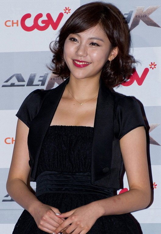 Erena Mizusawa at chCGV 소녀 K premiere, on August 23, 2011